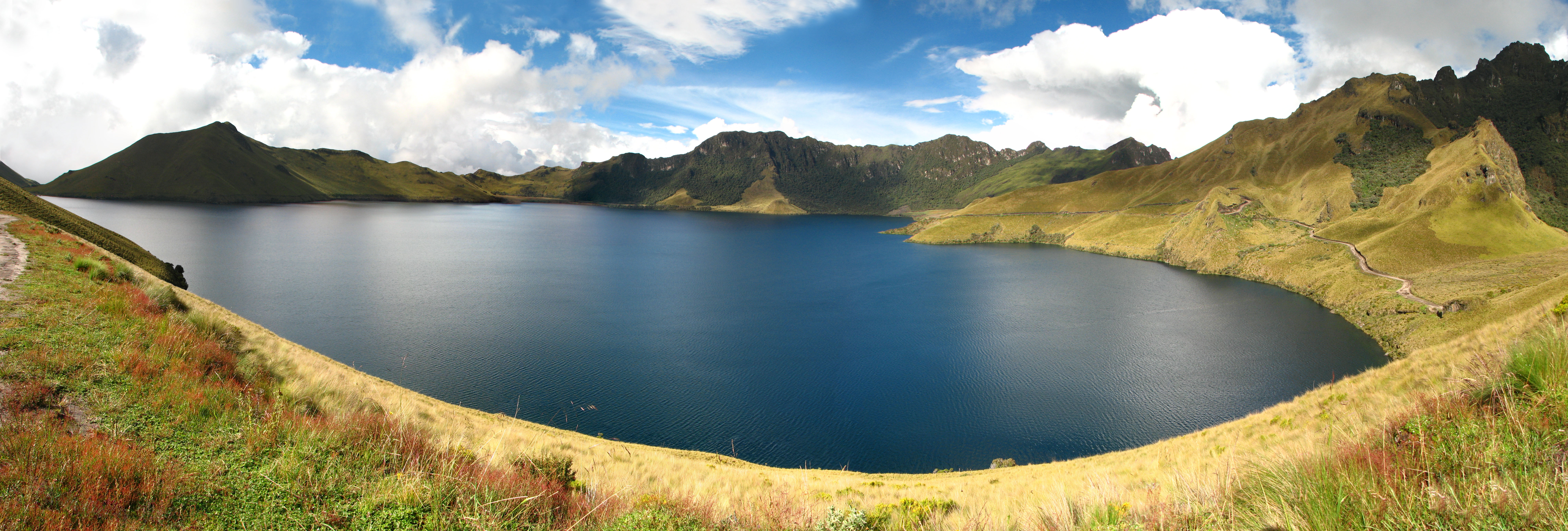 Panaroma taken in Mojanda Lakes, Ecuador